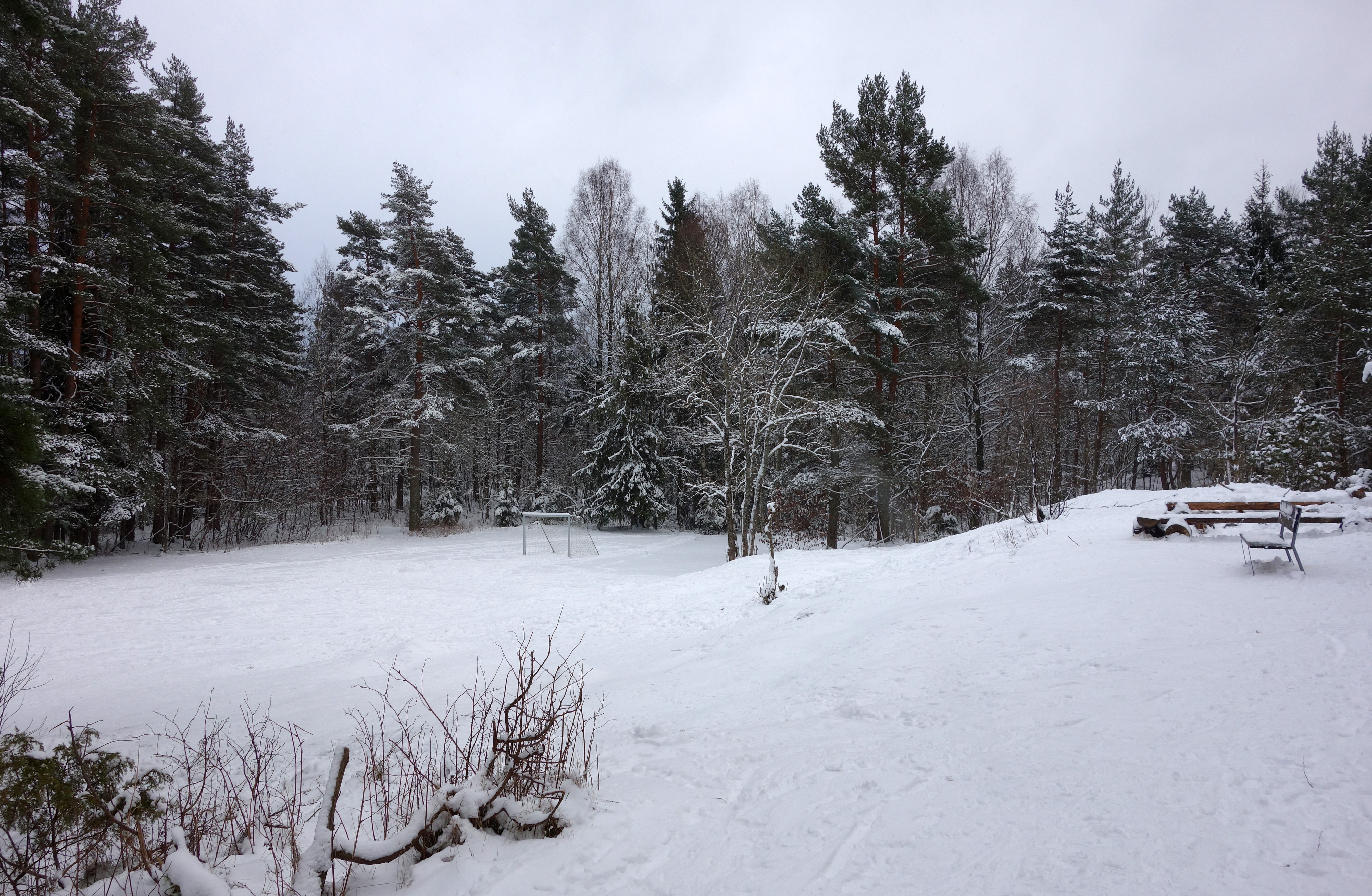 Aronsletta in Nøtterøy, Vestfold, Norway